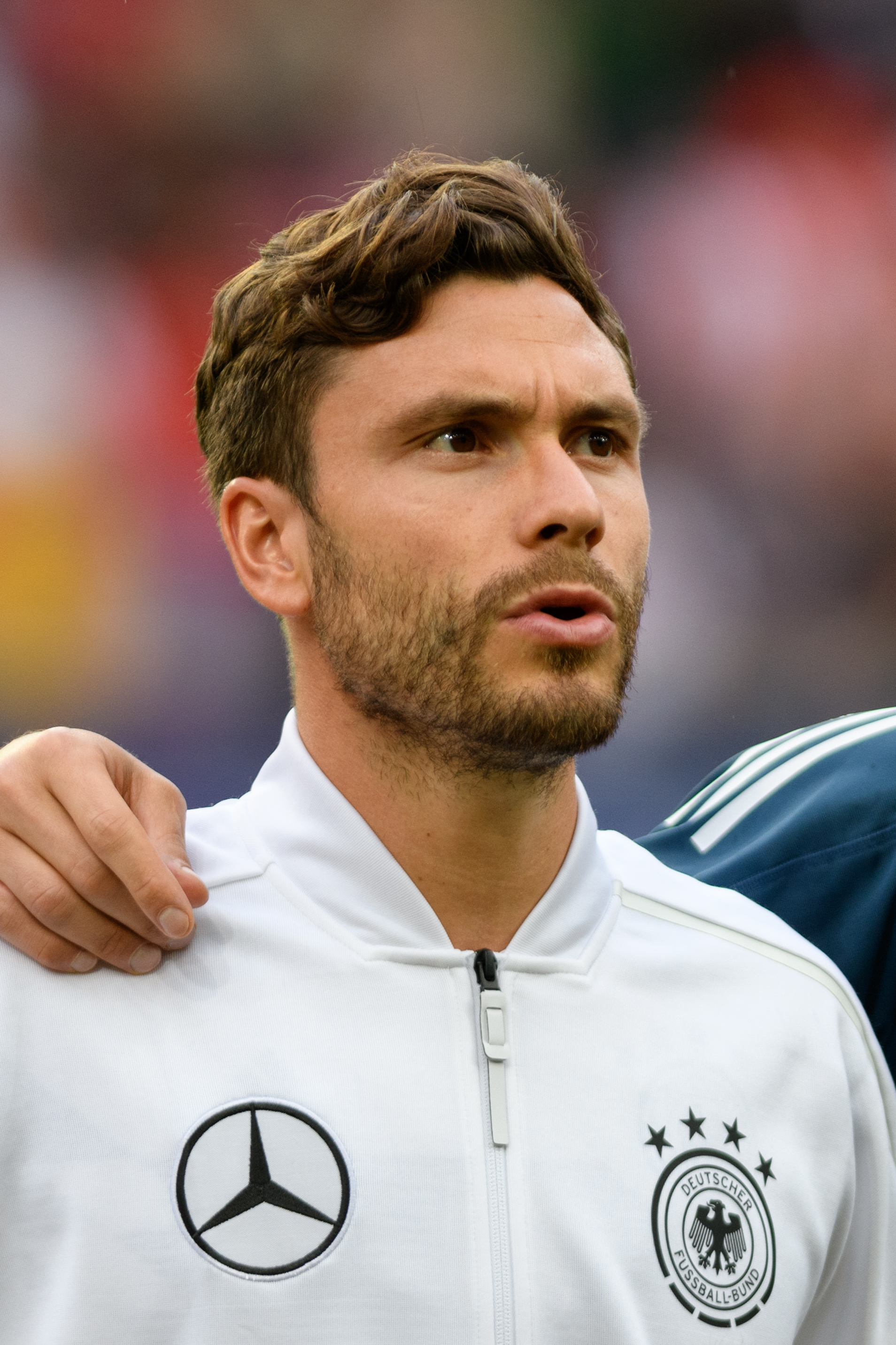 FIFA Friendly Match Austria vs. Germay 2018/06/02 in Klagenfurt/Woerthersee. Picture shows Jonas Hector (GER).